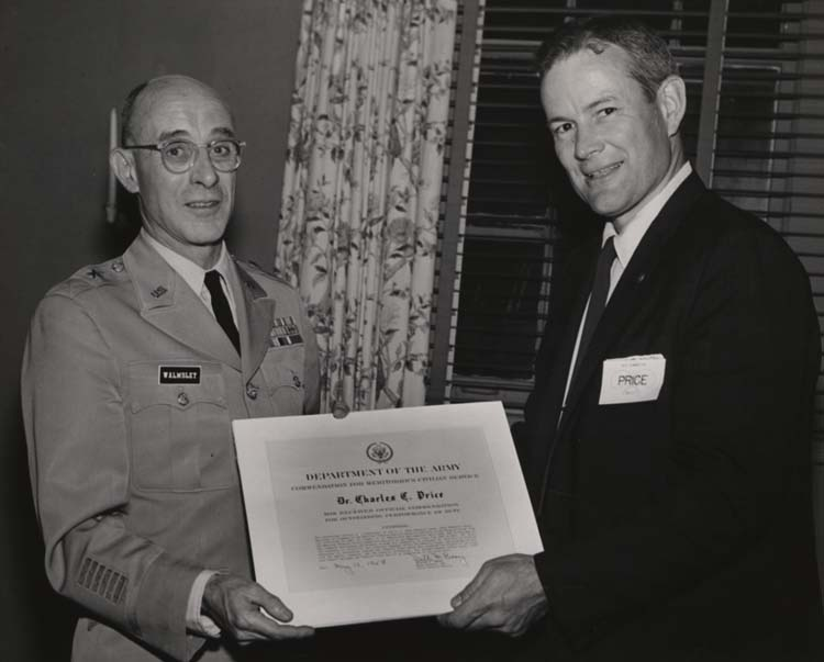 U.S. Army photograph, taken May 20, 1958, Presentation of the Department of the Army Commendation for Meritorious Civilian Service, the second highest award granted by the Army to civilian personnel, to Charles Coale Price III